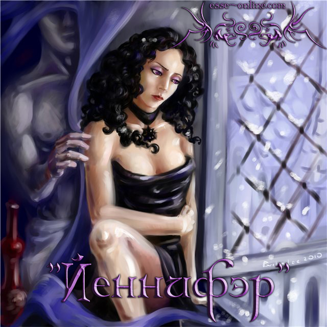 Rock-opera of group "ESSE" - "Road without return", based on the saga of Andrzej Sapkowski - "The Witcher". Illustration for scene 6 - "Yennefer". Autor - Ekaterina Kozlovskaya.